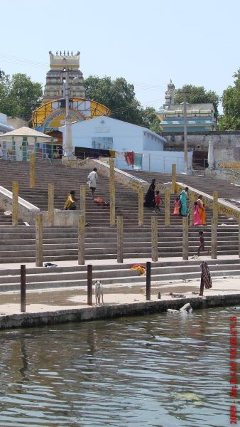 bathing ghat